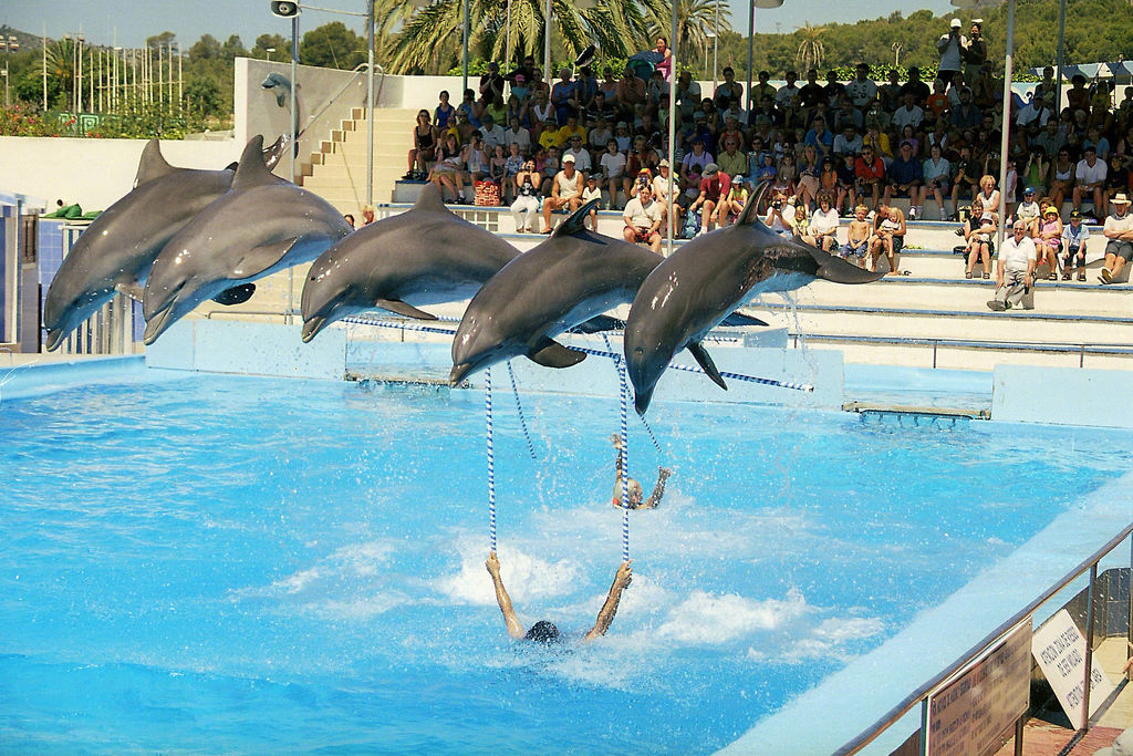 Swimming with dolphins.